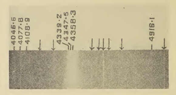 Raman spectrum of Benzene showing both Stokes and anti-Stokes lines around the exciting 4358.3 angstrom line. Originally published in Nature in 1929 by Raman and Krishnan.